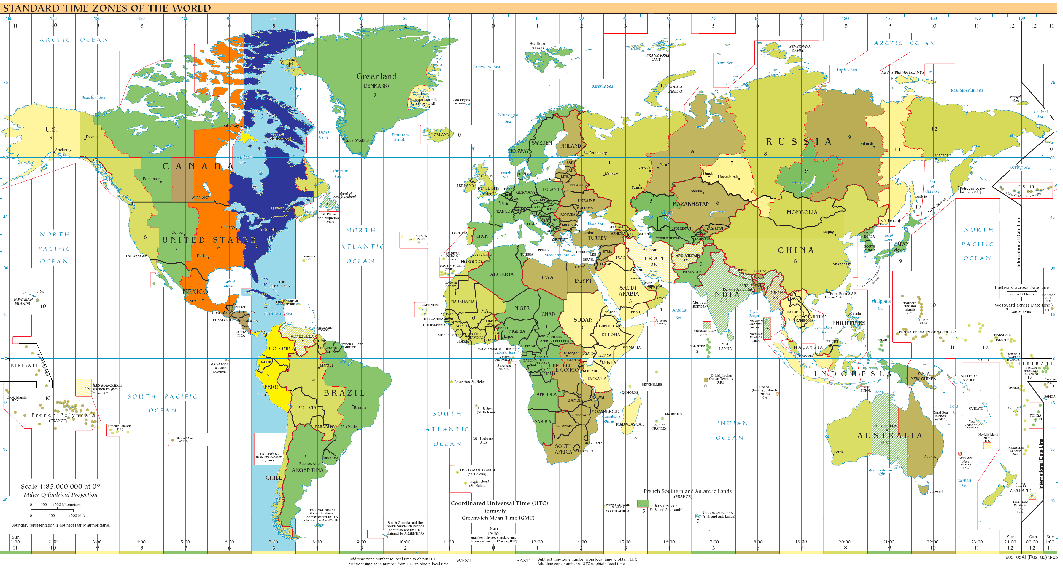 Please, don't overwrite the original image with a "grayed" version. A separate gray version is available. Copy of Timezones2008.png highlighting UTC-5 Dark Blue - UTC-5 during Northern Winter / Southern Summer Orange - UTC-5 during Northern Summer / Southern Winter Yellow - UTC-5 all year round Light Blue - UTC-5 sea areas